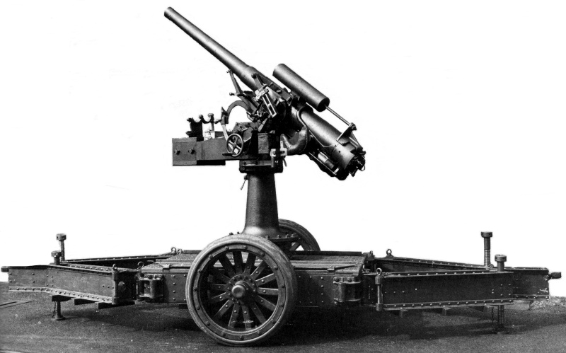 QF 12 pounder 12 cwt gun Mk I* on high-angle anti-aircraft mount on traveling platform, World War I.